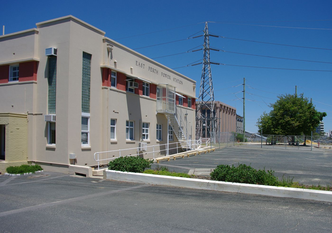 East Perth Power station admin building